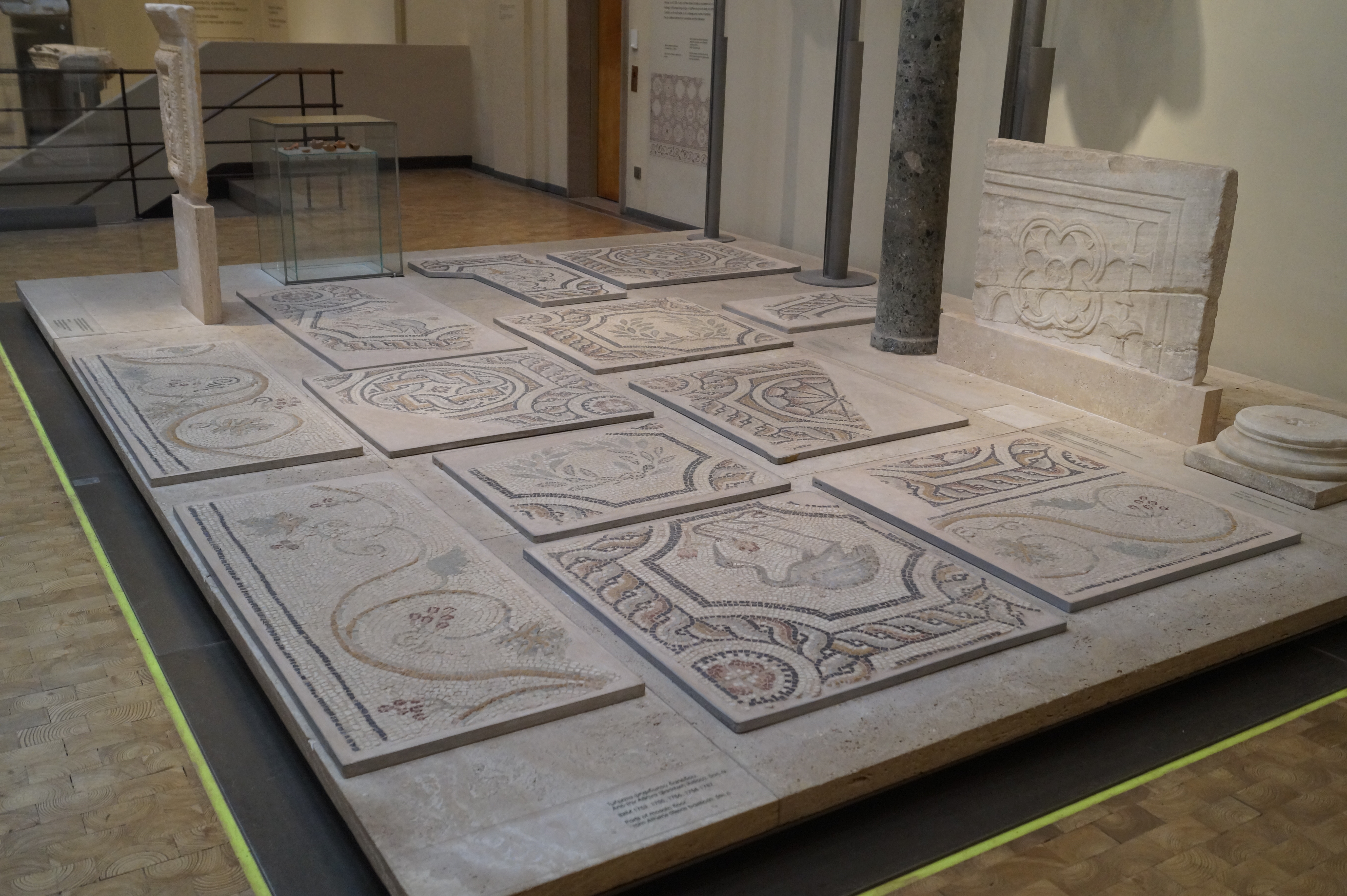 Athens, Greece: Byzantine and Christian Museum: Parts of mosaic floor from Ilissos Basilica (First half of 5th century).